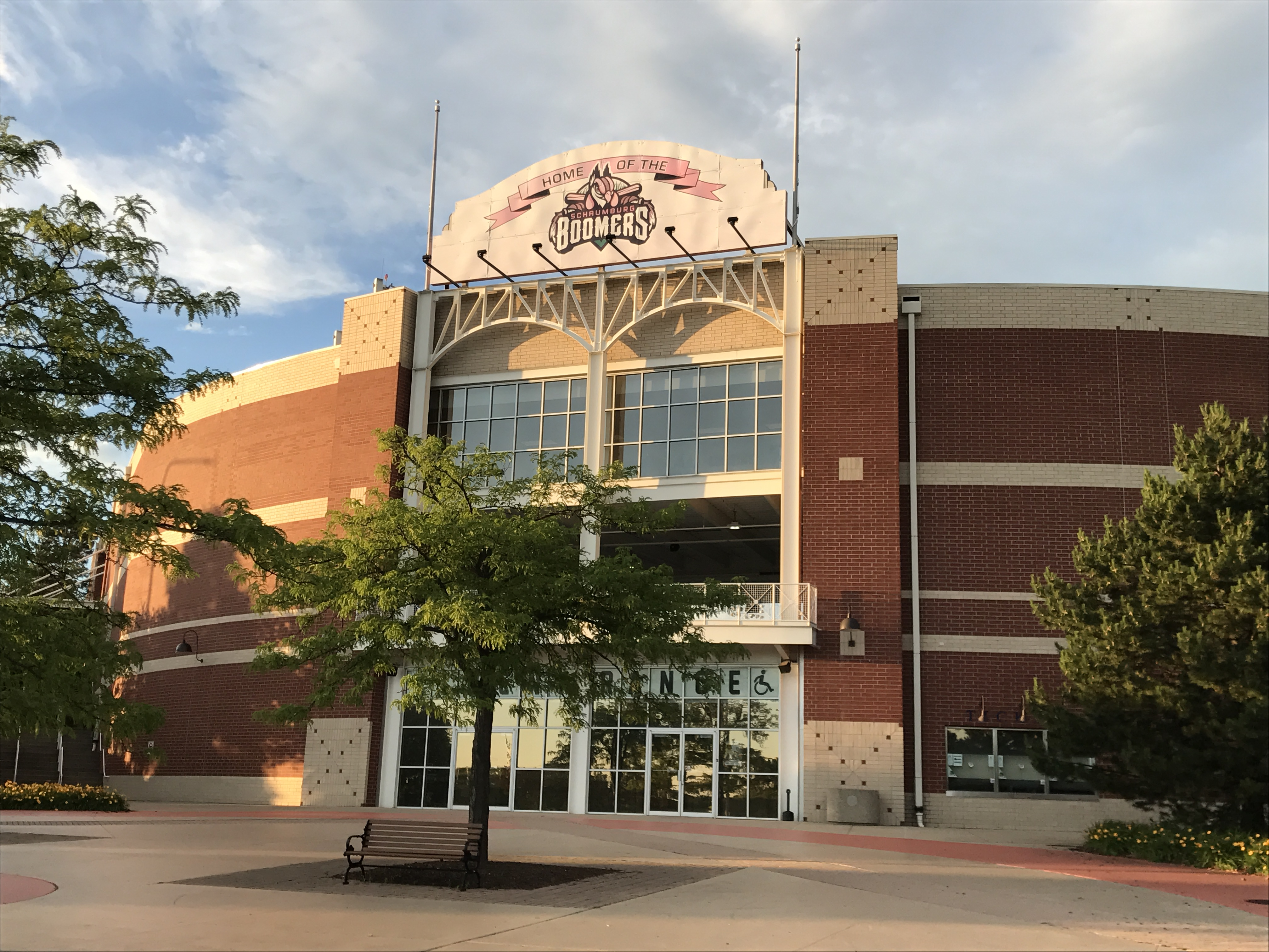 The entrance to Schaumburg Boomers Stadium